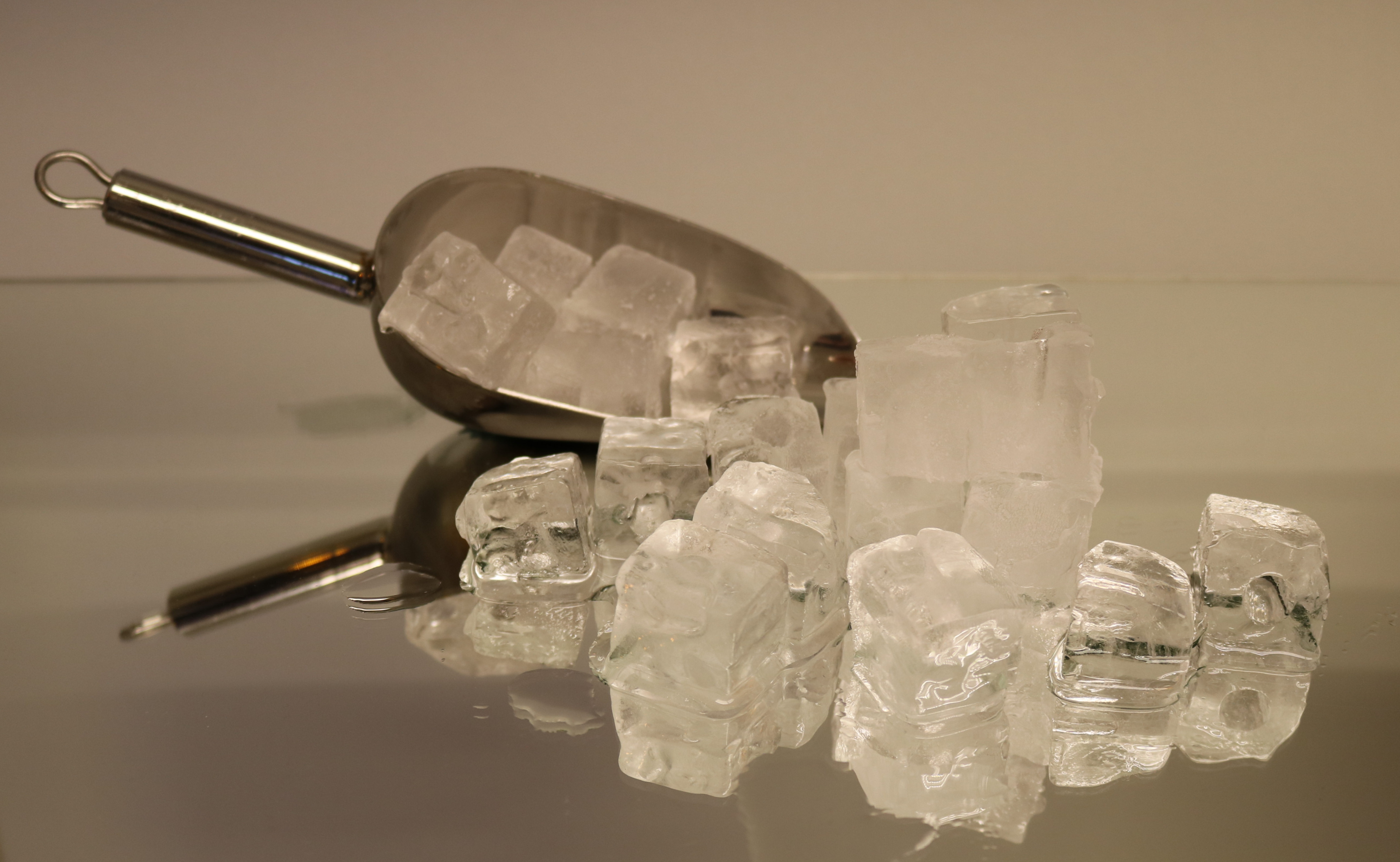 Ice cubes with ice shovel / ice scoop.